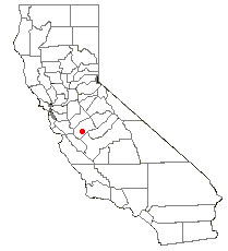 Locator map of the City of Los Banos — in Merced County, California.